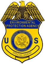 Environmental Protection Agency Criminal Investigation Division Special Agent Badge